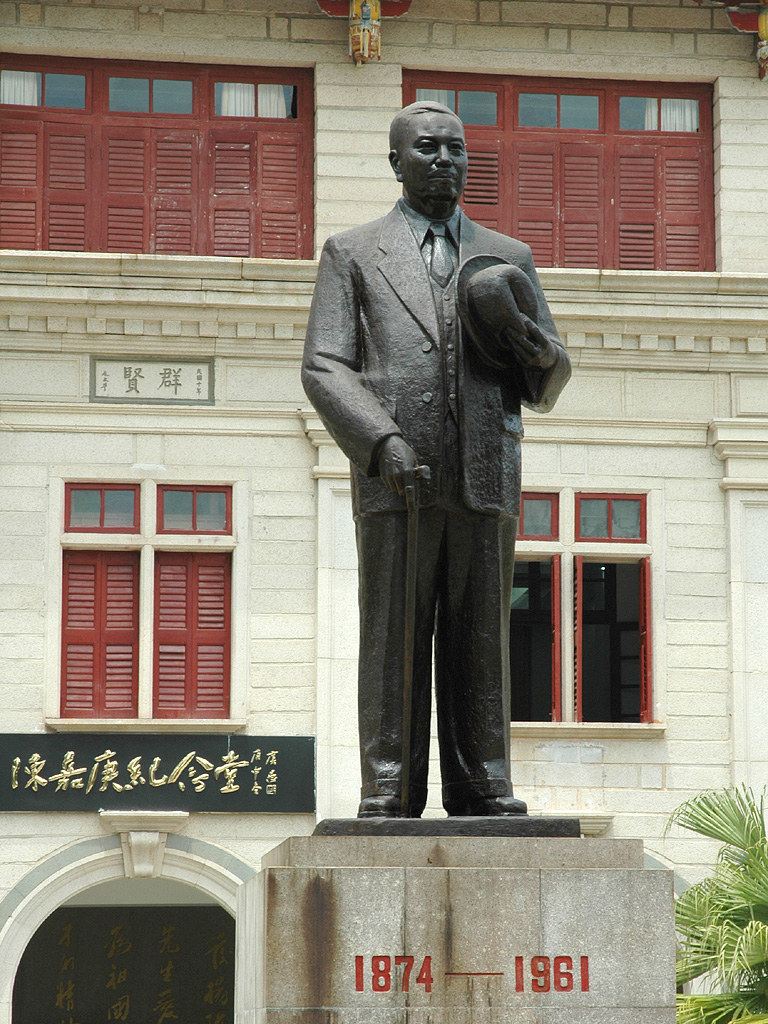 Statue of Tan Kah Kee, in front of his memorial hall. taken by myself.